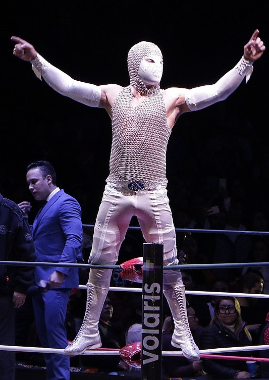 Viernes 30 de noviembre de 2018Arena México, ceremonia de develación de la placa conmemorativa por el reciente decreto de la Lucha Libre como Patrimonio Cultural Intangible de la Ciudad de México, estuvieron presentes autoridades del Consejo Mundial de Lucha Libre, y autoridades del gobierno de la CMDX, entre ellos Gabriela López Torres, coordinadora de Patrimonio Histórico Artístico y Cultural de la Secretaría de Cultura de la CDMX, además de invitados especiales.Fotografía: Tania Victoria/ Secretaría de Cultura CDMX